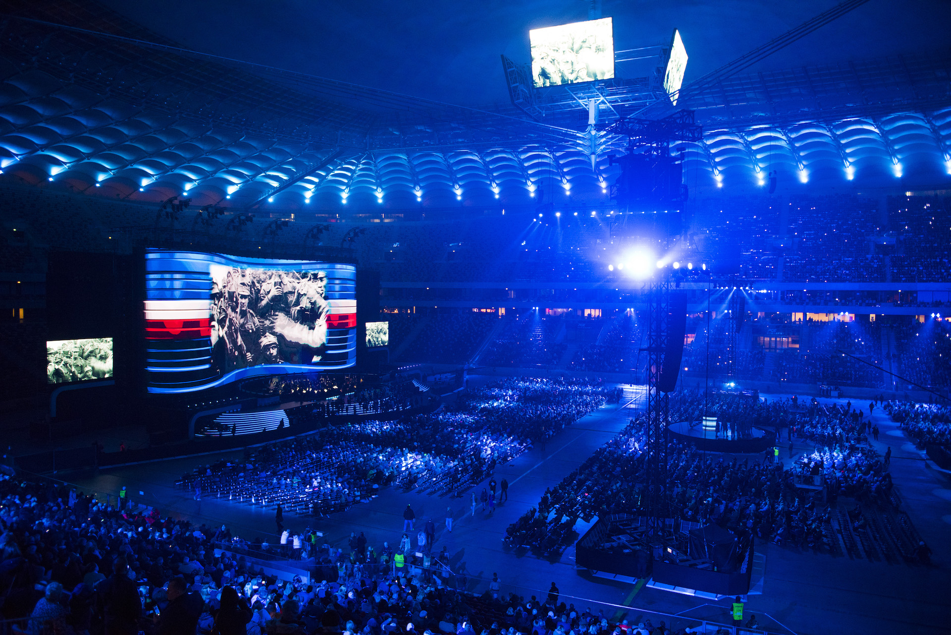 Concert for Independence. November 10, 2018. Warsaw. Poland.